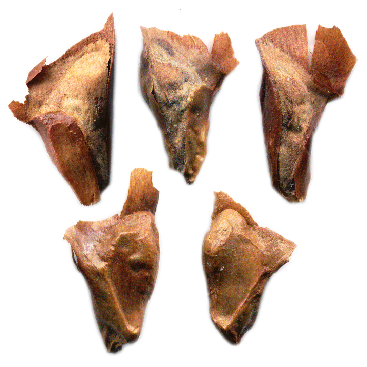 Abies alba seeds